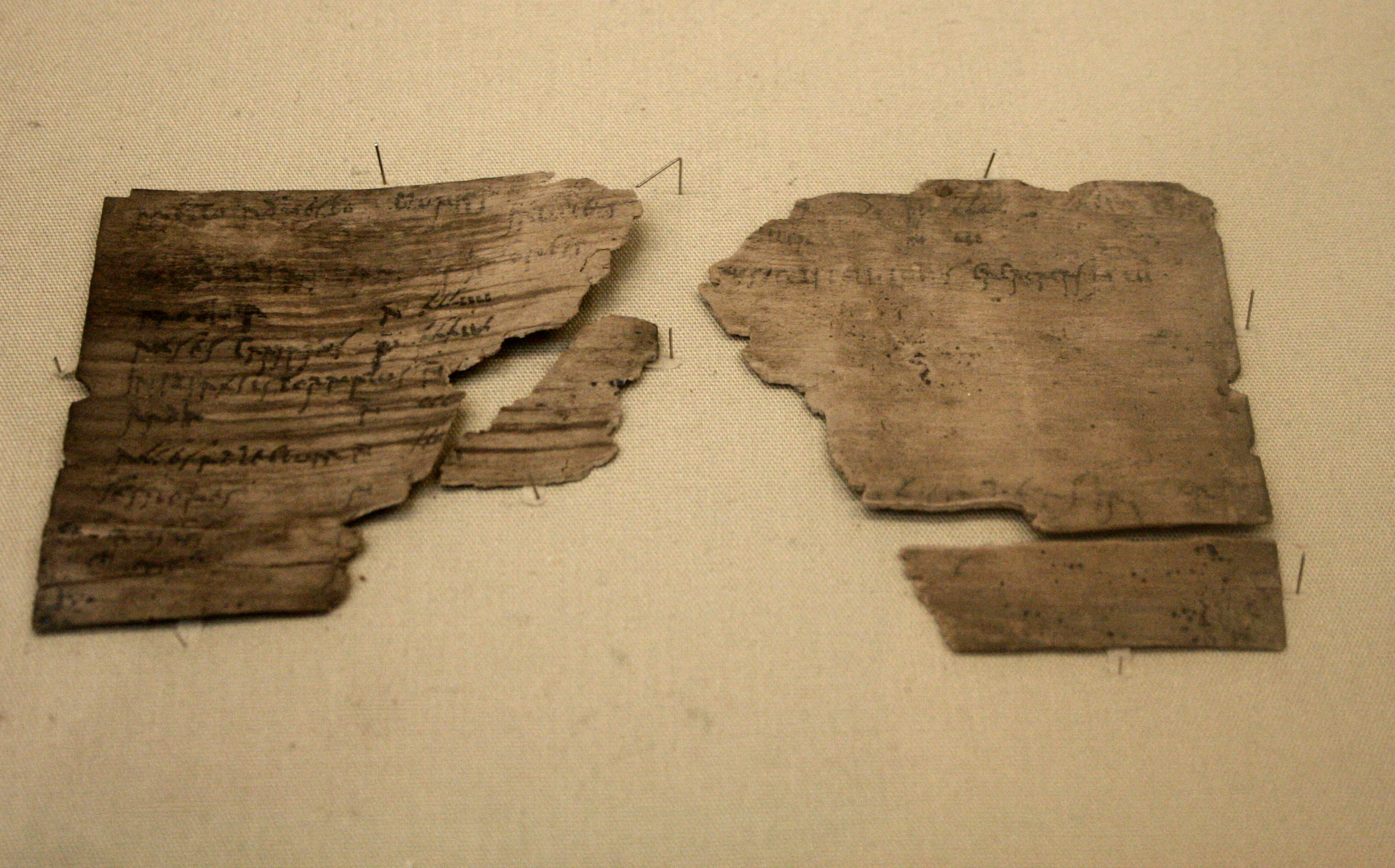 Roman writing tablet from the Vindolanda Roman fort of Hadrian's Wall, in Northumberland (1st-2nd century AD). Tablet 309: Letter from Metto to Advectus concerning parts for carts and other wooden items. British Museum (London)